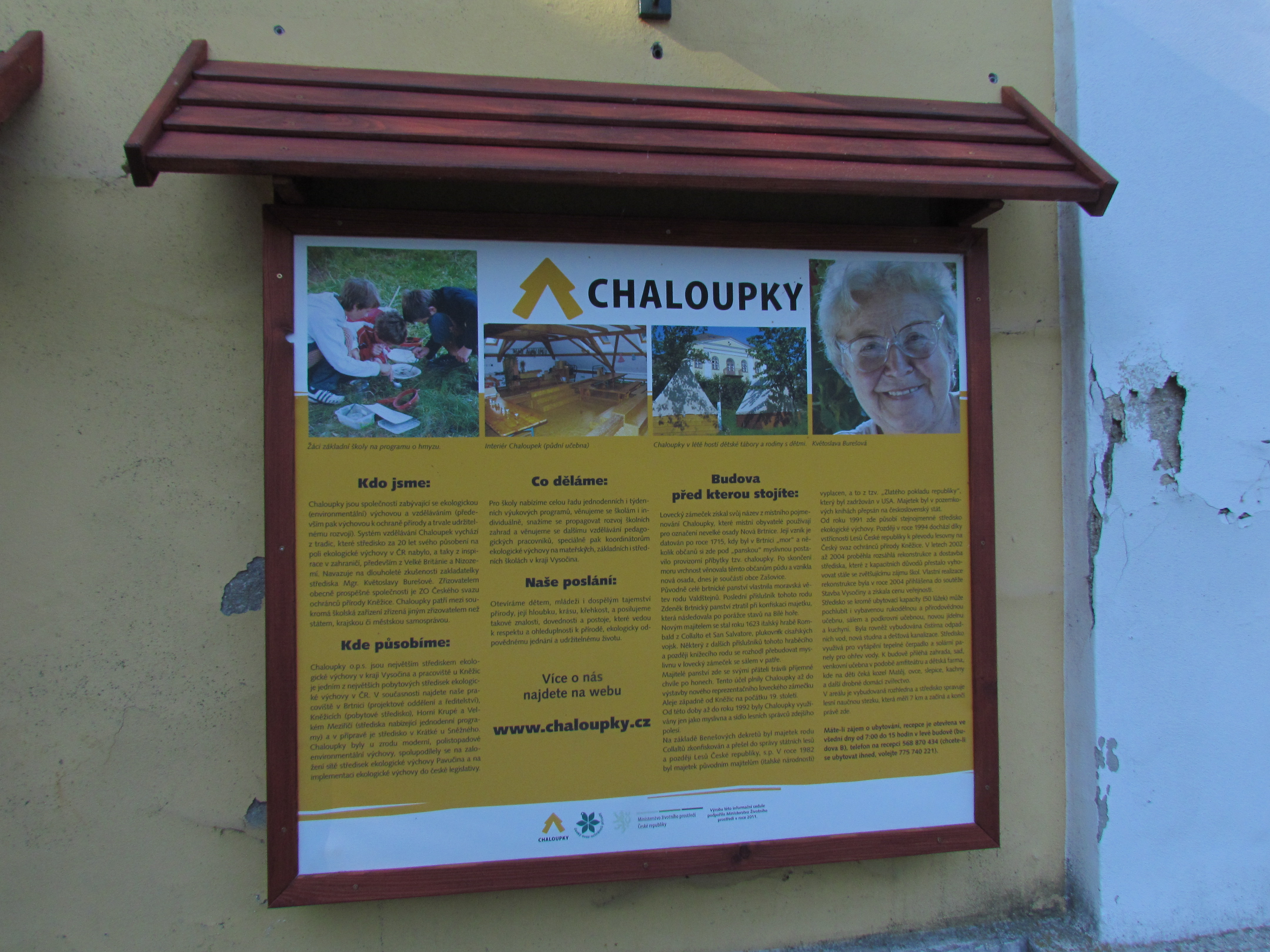 Infopanel of environmental center Chaloupky castle in Kněžice, Jihlava District.